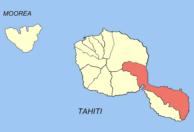 Map of Tahitian communes — Taiarapu-Est